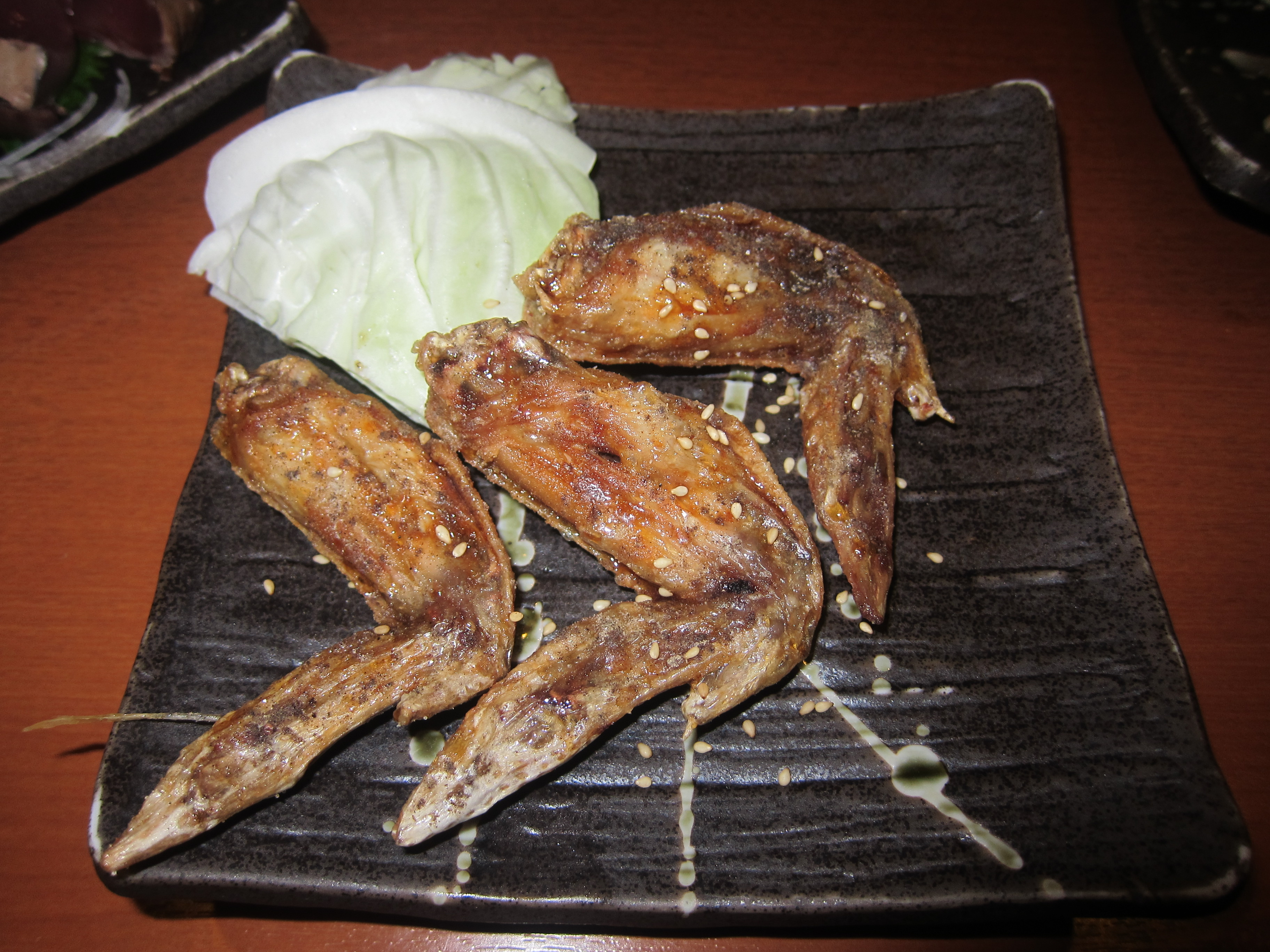 Nagoya Style Chicken Wings (Tebasaki) 手羽先